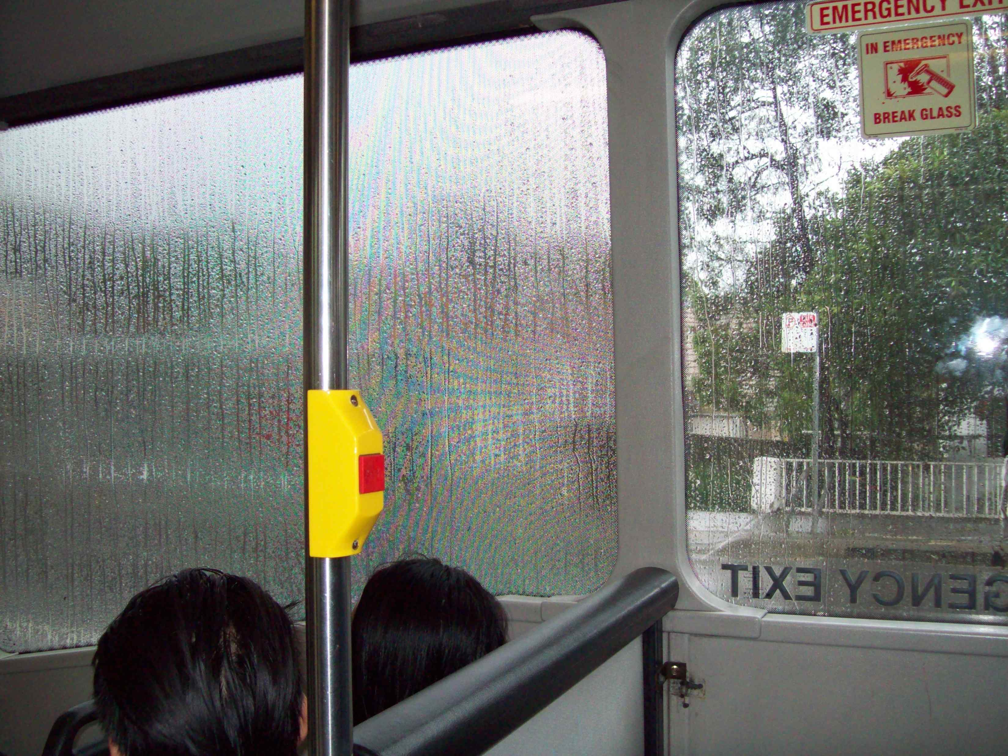 Shows how wet buswrap distorts the view from inside through wrapped bus windows to the extent that passengers may be unable to see where they are. The window on the left has a wrapped advertisement on the outside whereas the window on the right does not.